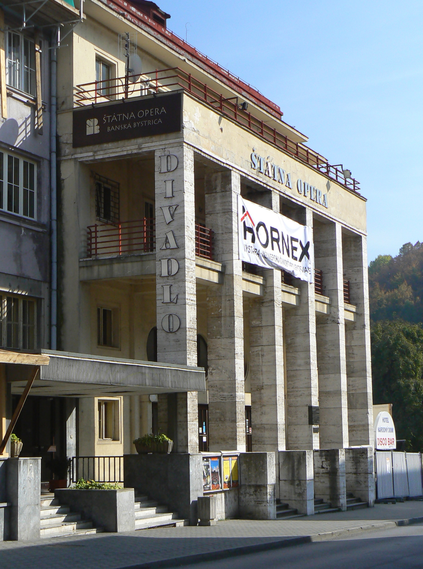 The State Opera in Banska Bystrica, Slovakia